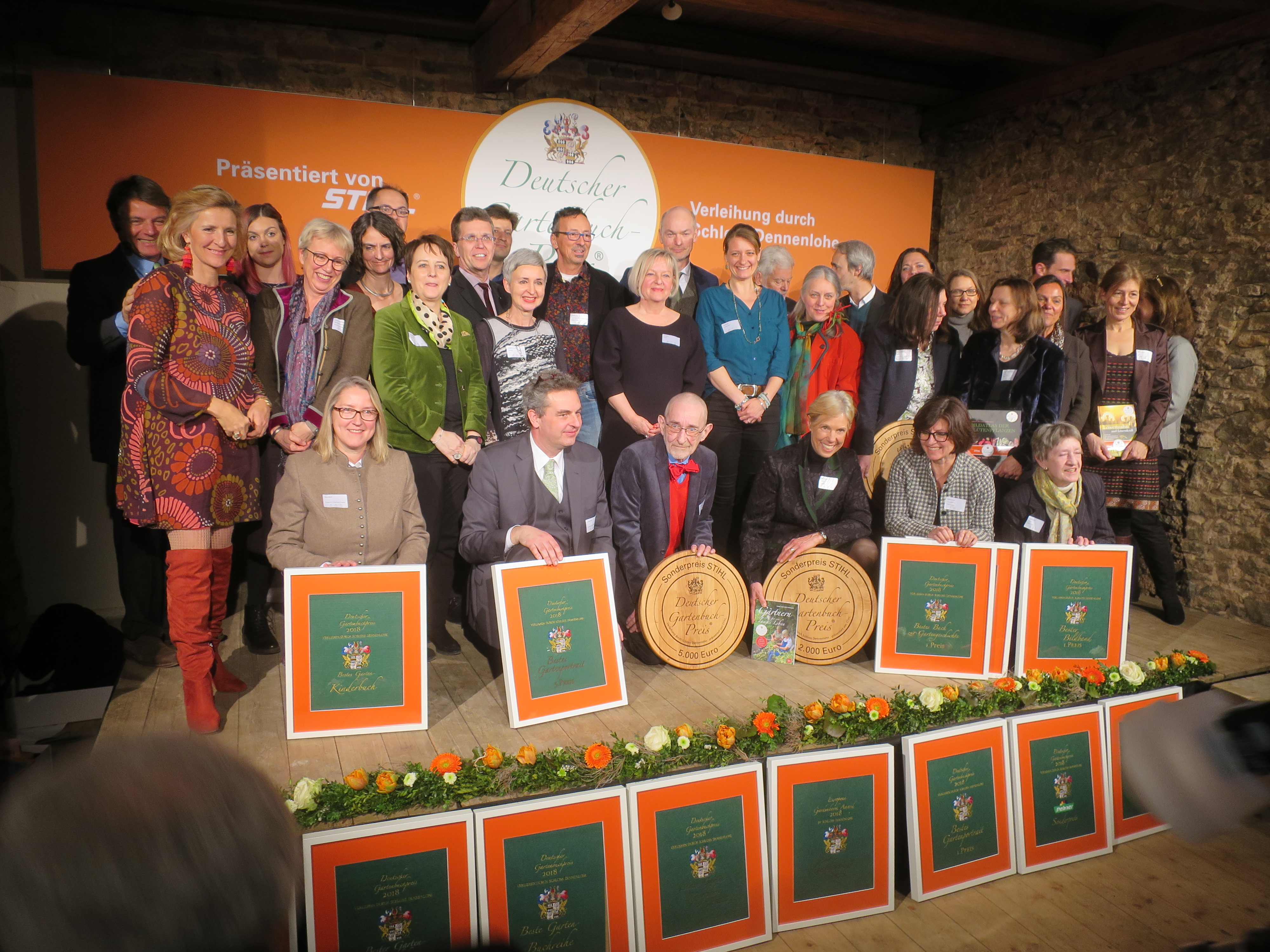 German garden book Award 2018